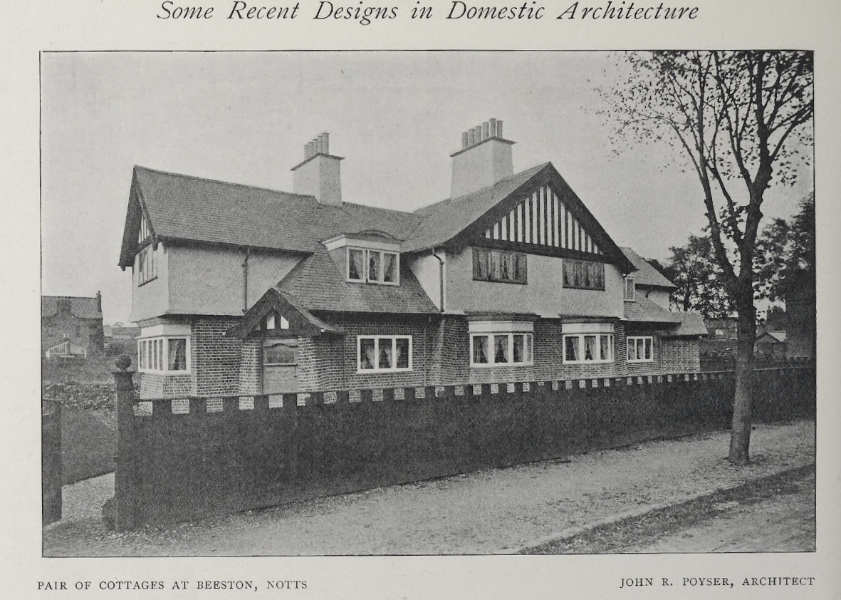 Cottages on Glebe Street, Beeston. From Studio: Art International. Volume 36. 1906